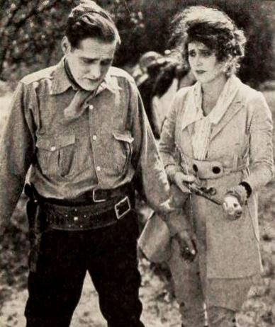 Still from the American western film serial Hands Up! (1918) with George Larkin and Ruth Roland, on page 55 of the August 10, 1918 Exhibitors Herald.